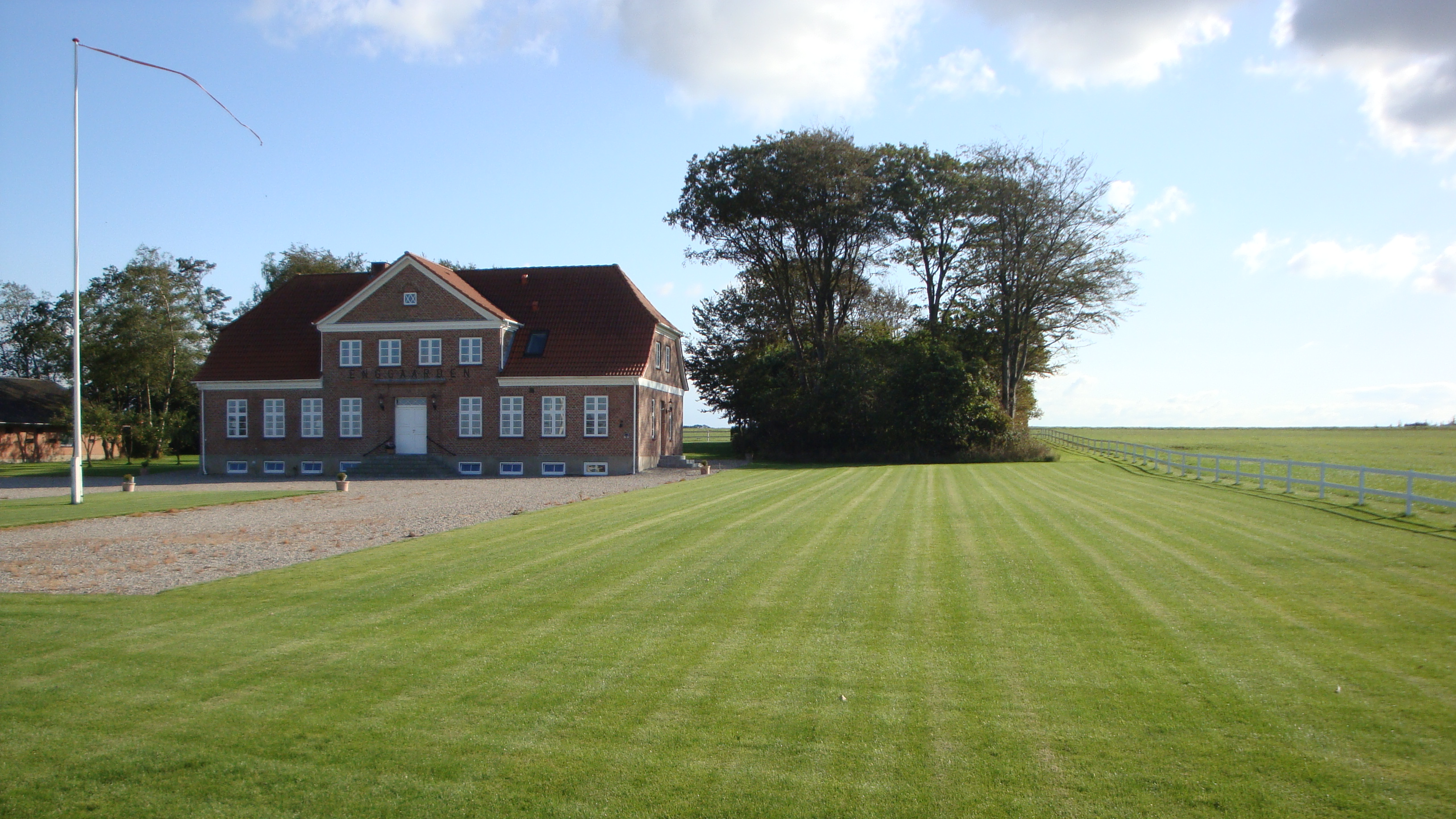 Enggården in September